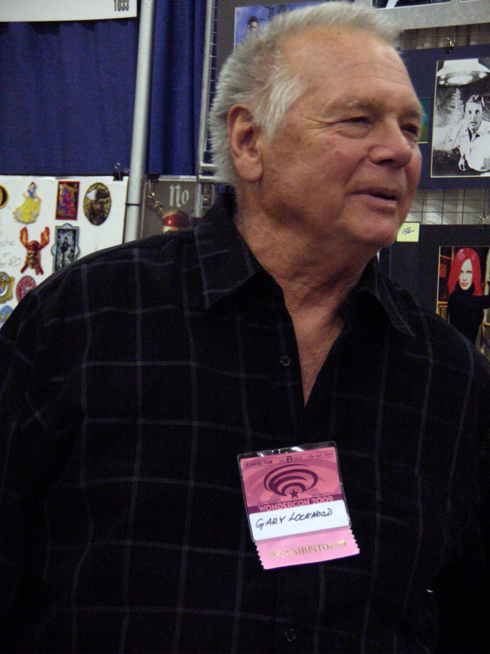 Gary Lockwood at WonderCon 2009.